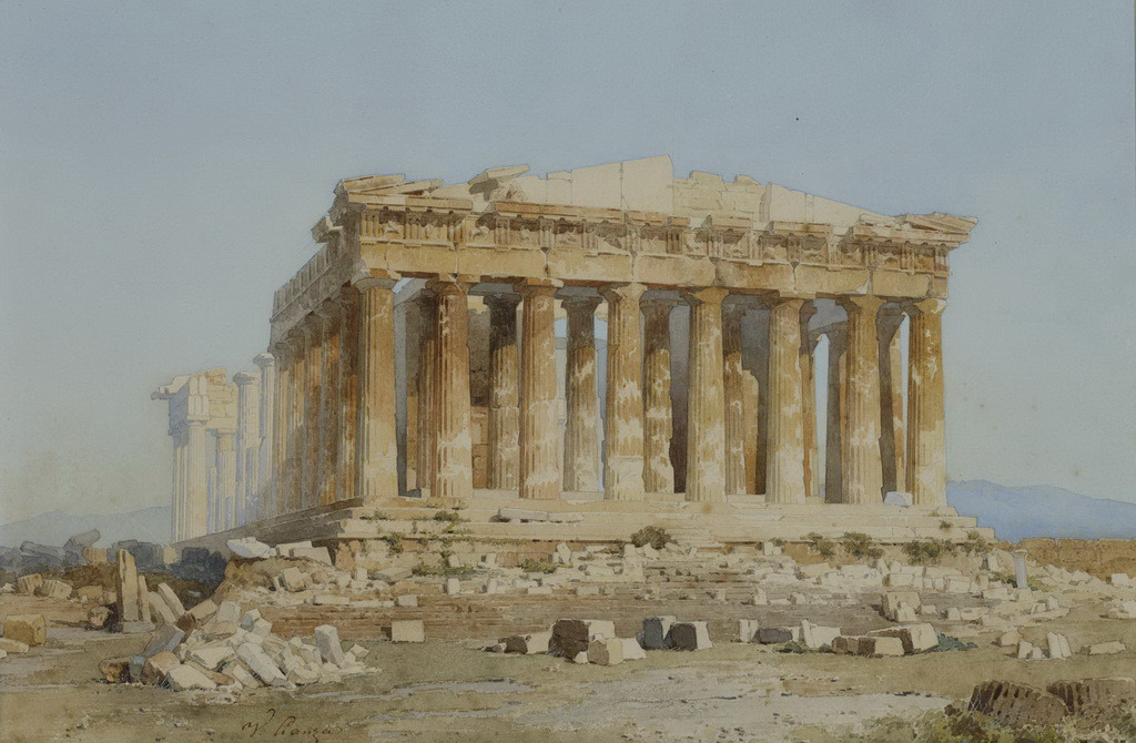 Parthenon